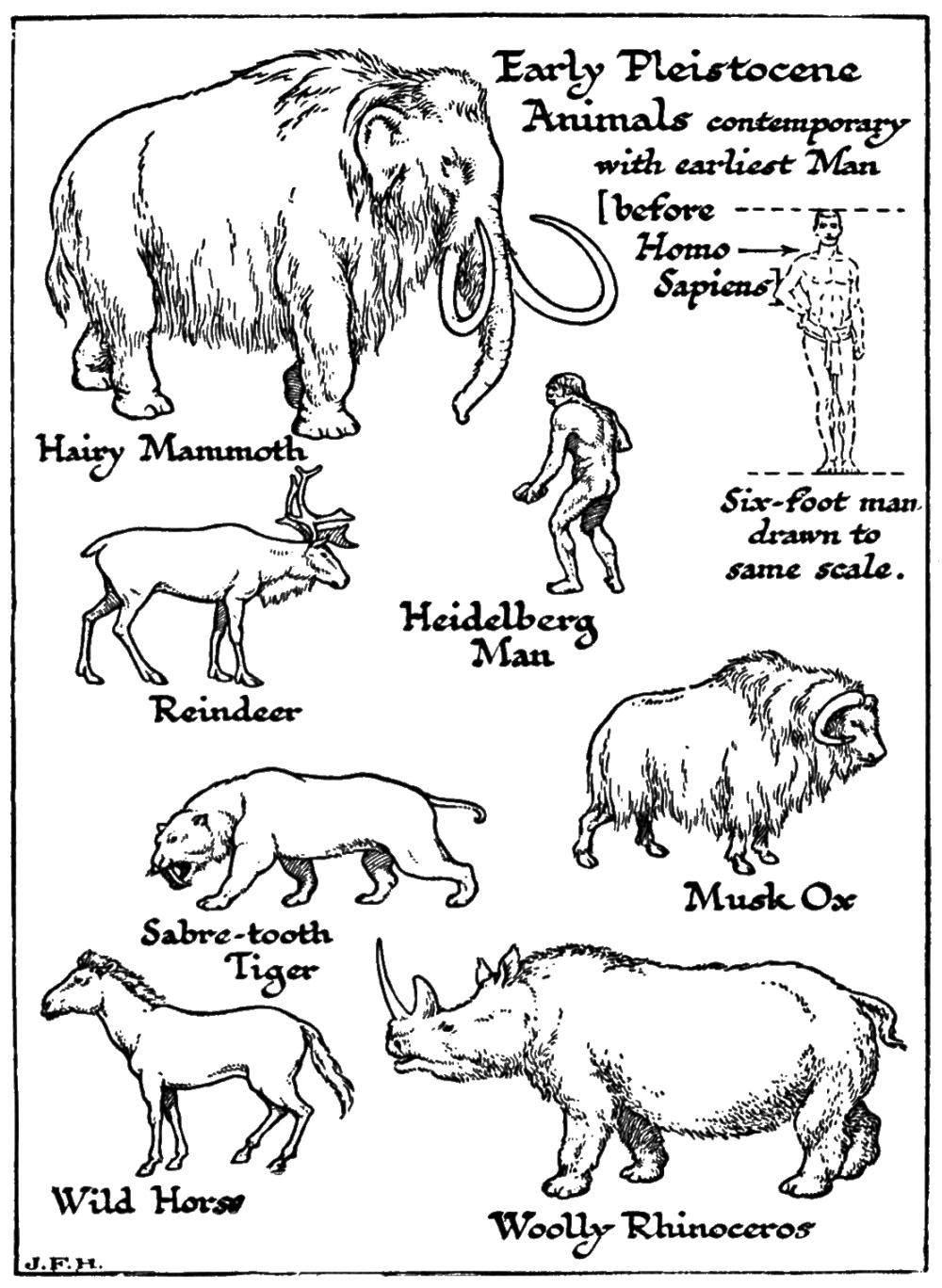 Early Pleistocene Animals